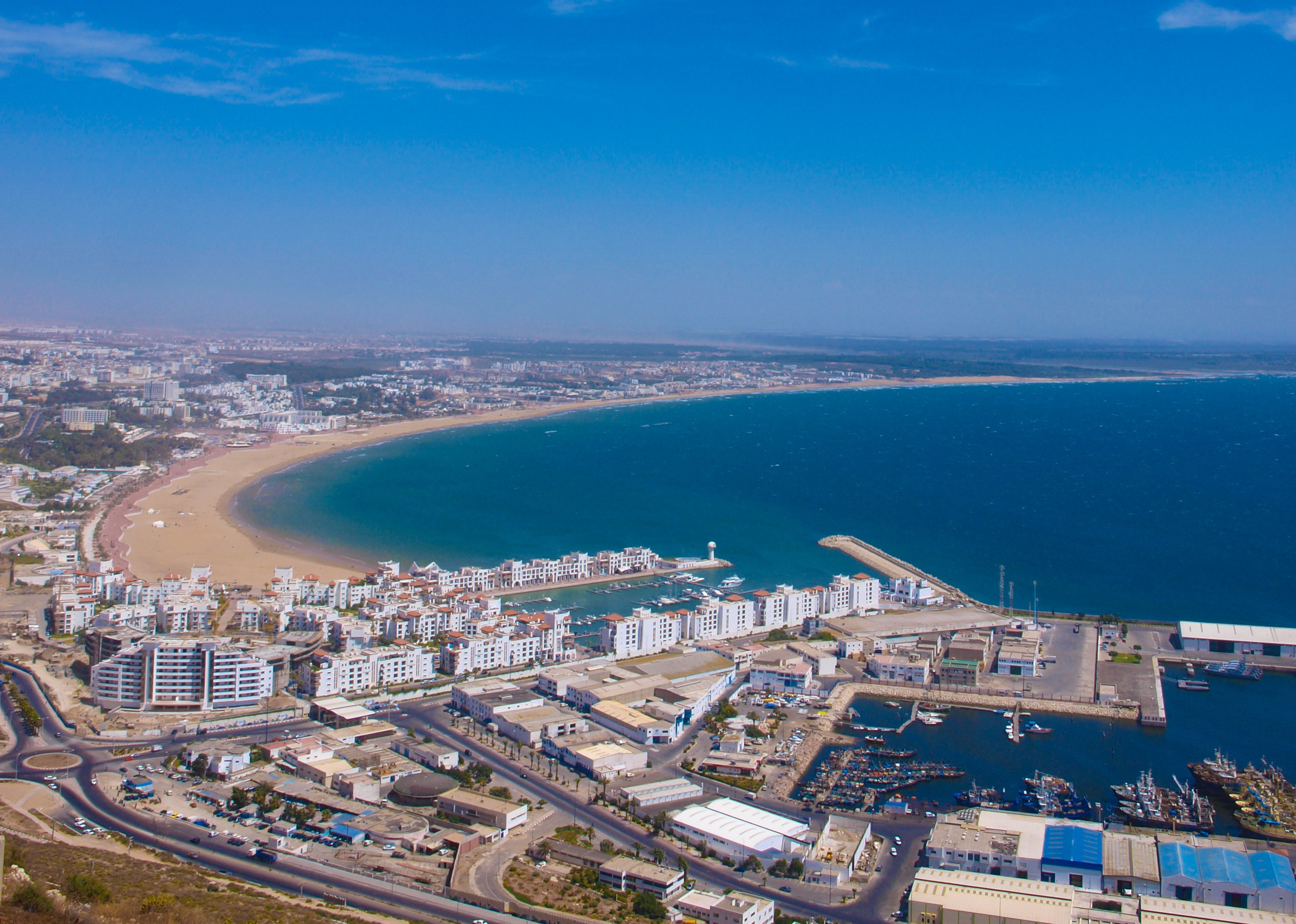 Areal view of Agadir